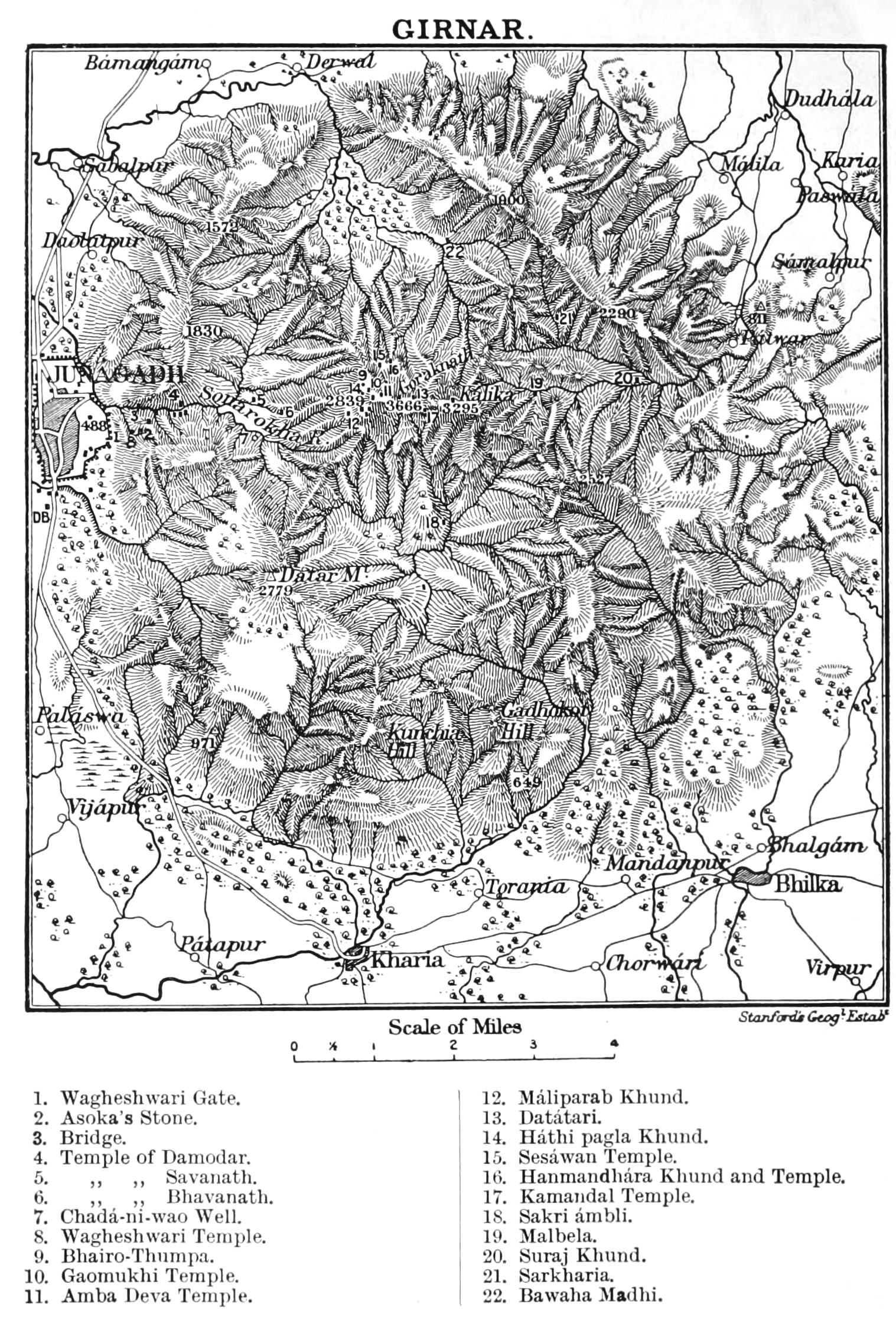 Identifier: handbooktravelle00john Title: A handbook for travellers in India, Burma, and Ceylon . Year: 1911 (1910s) Authors: John Murray (Firm) Subjects: India -- Guidebooks Burma -- Guidebooks Sri Lanka -- Guidebooks Publisher: London : J. Murray Calcutta : Thacker, Spink, & Co.